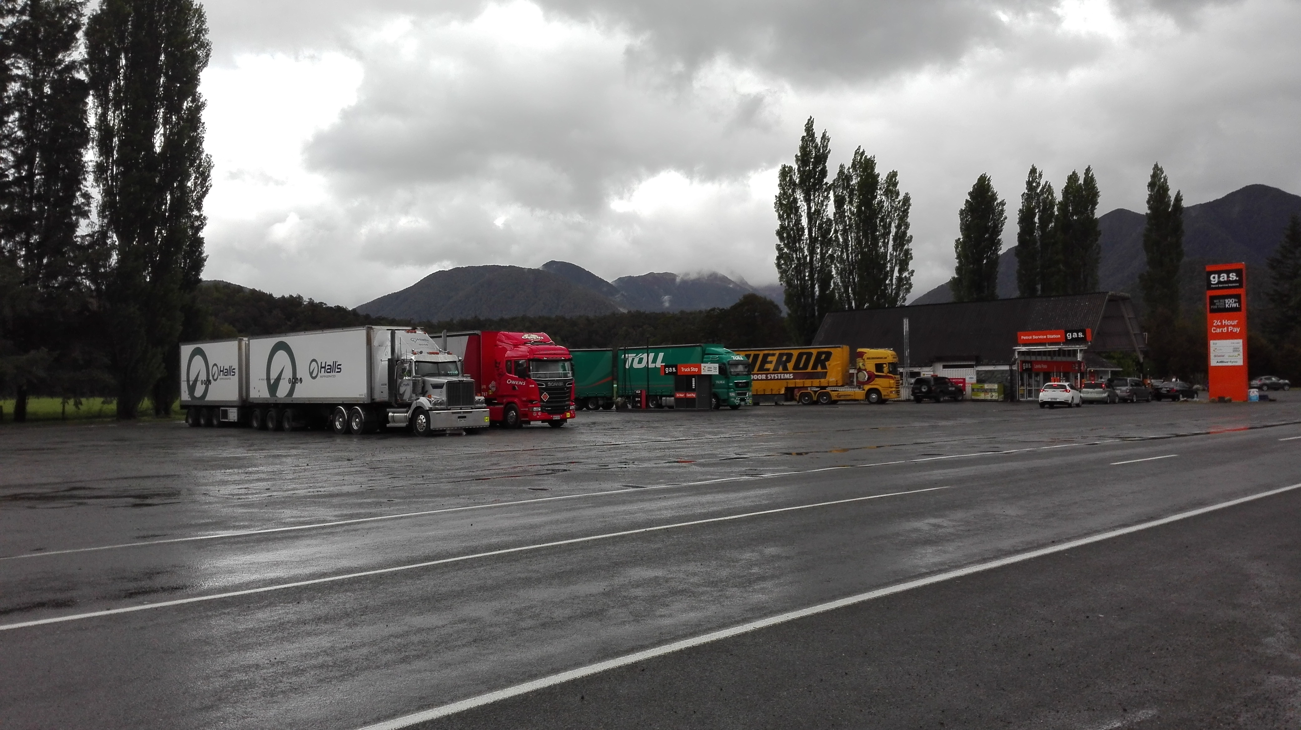 The petrol station at Springs Junction, South Island, New Zealand.